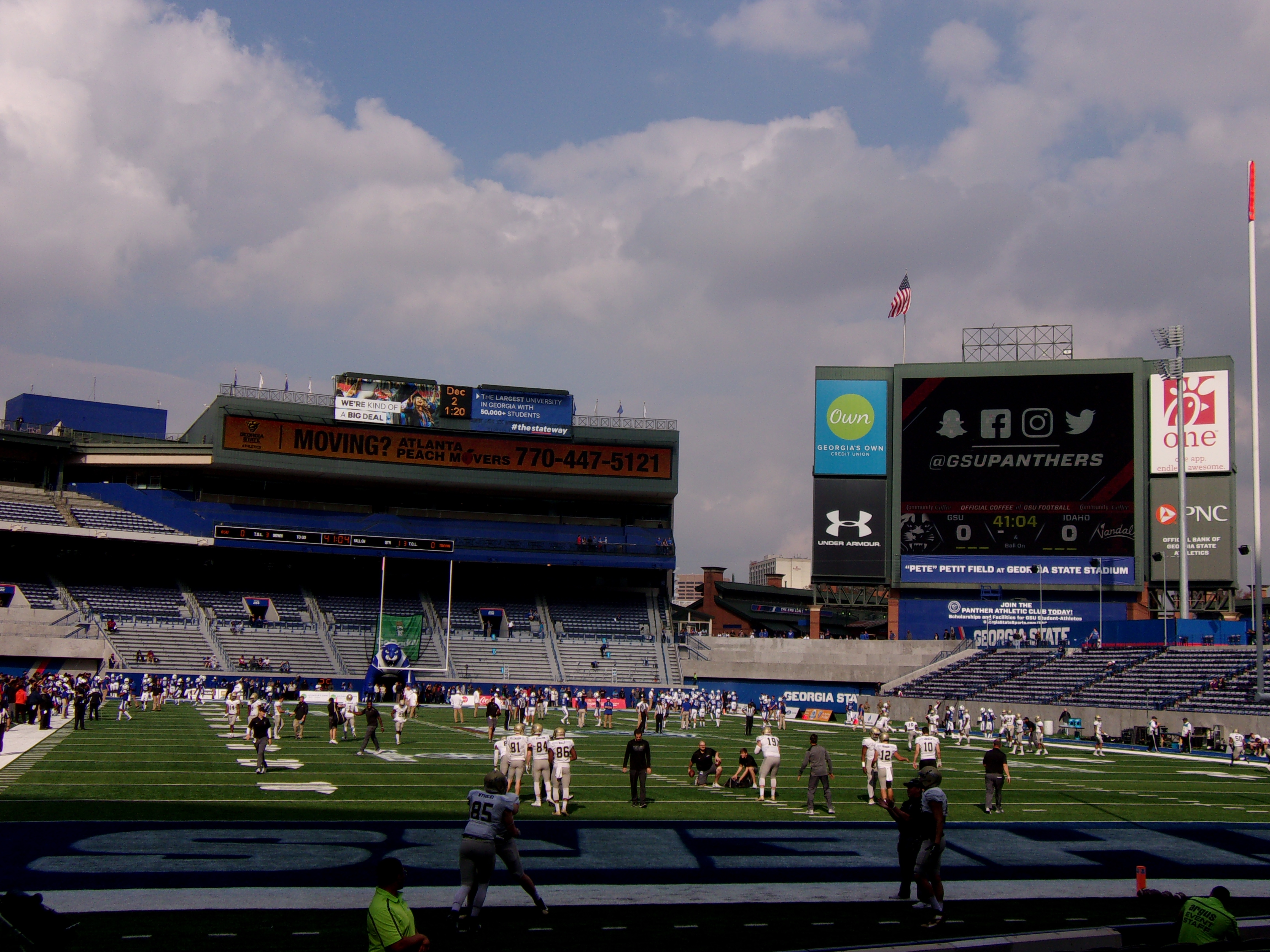 Pre-game warm up at Georgia State Stadium before game with Idaho Vandals on December 2, 2017